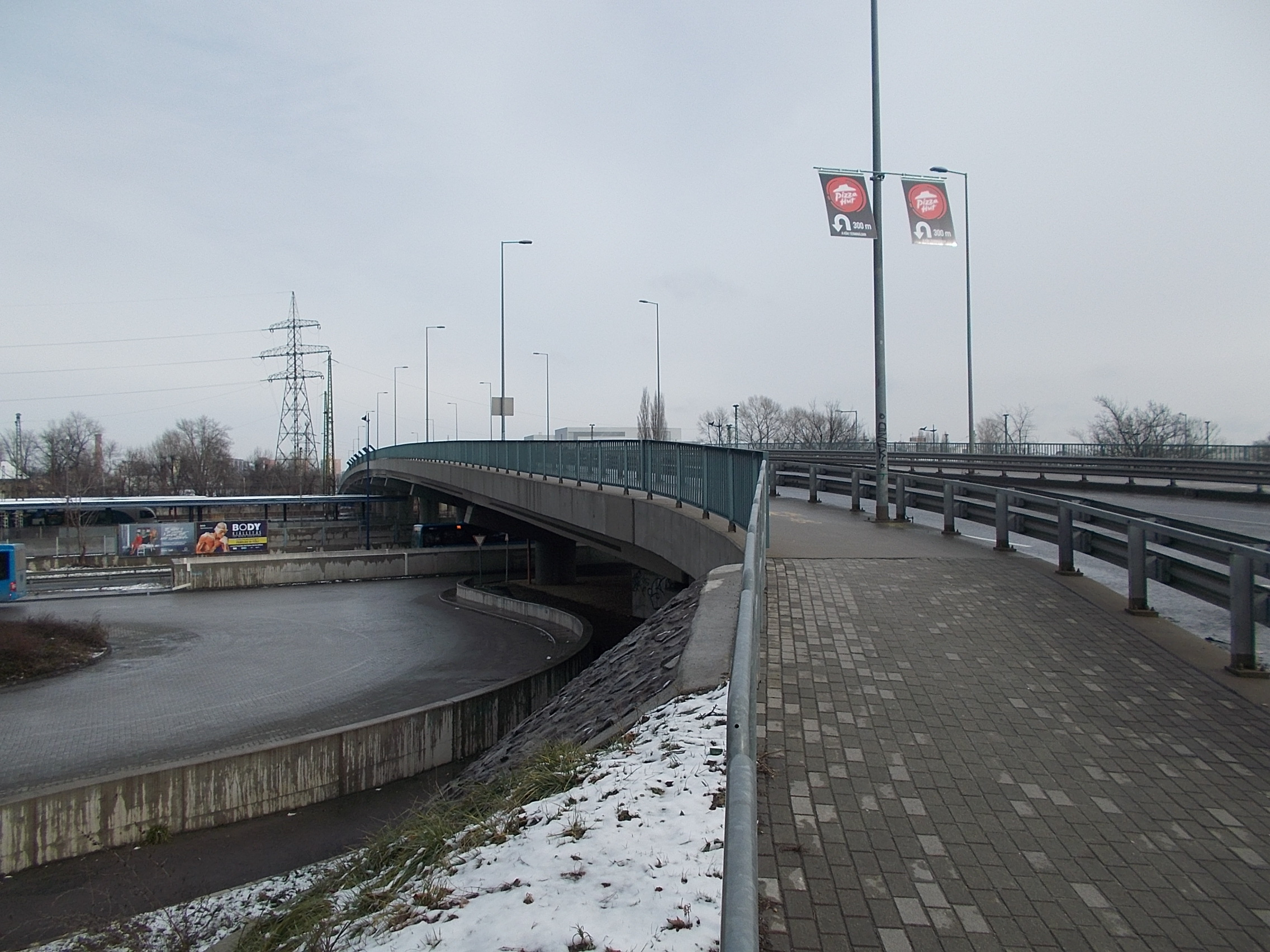 Sibrik Miklós overpass bridge west side from south, a bus arrived to Köki Bus Terminal (detail, left) behind it is the Route 4 (Hungary) the city part of its called cca. Road to the Ferihegy Airport after the Kőbánya-Kispest railway station, at the platform S25 suburb line train (Stadler FLIRT, a MÁV 5341). - Sibrik Miklós street, Kispest (19th District of Budapest).